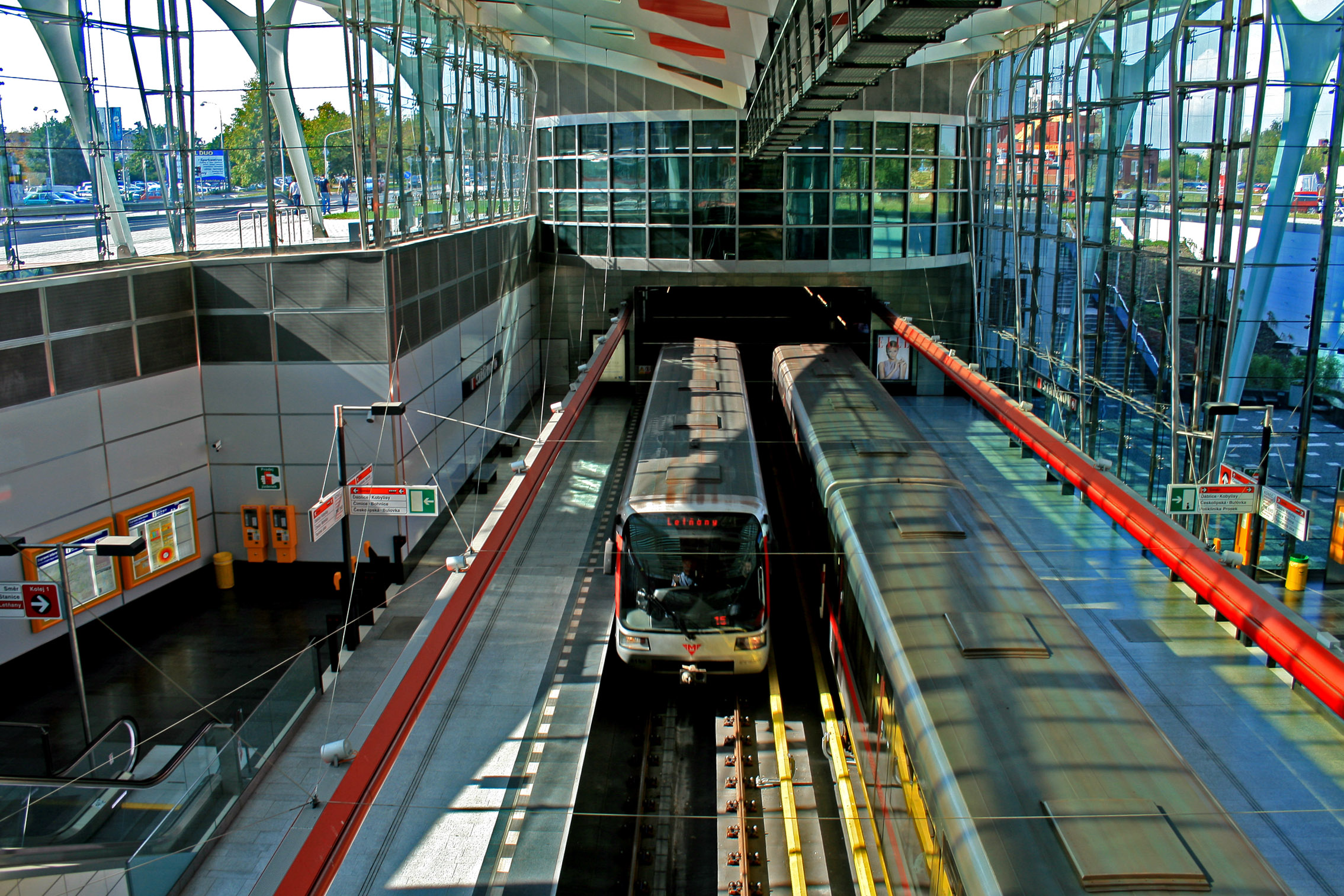 Prague Metro station Střížkov